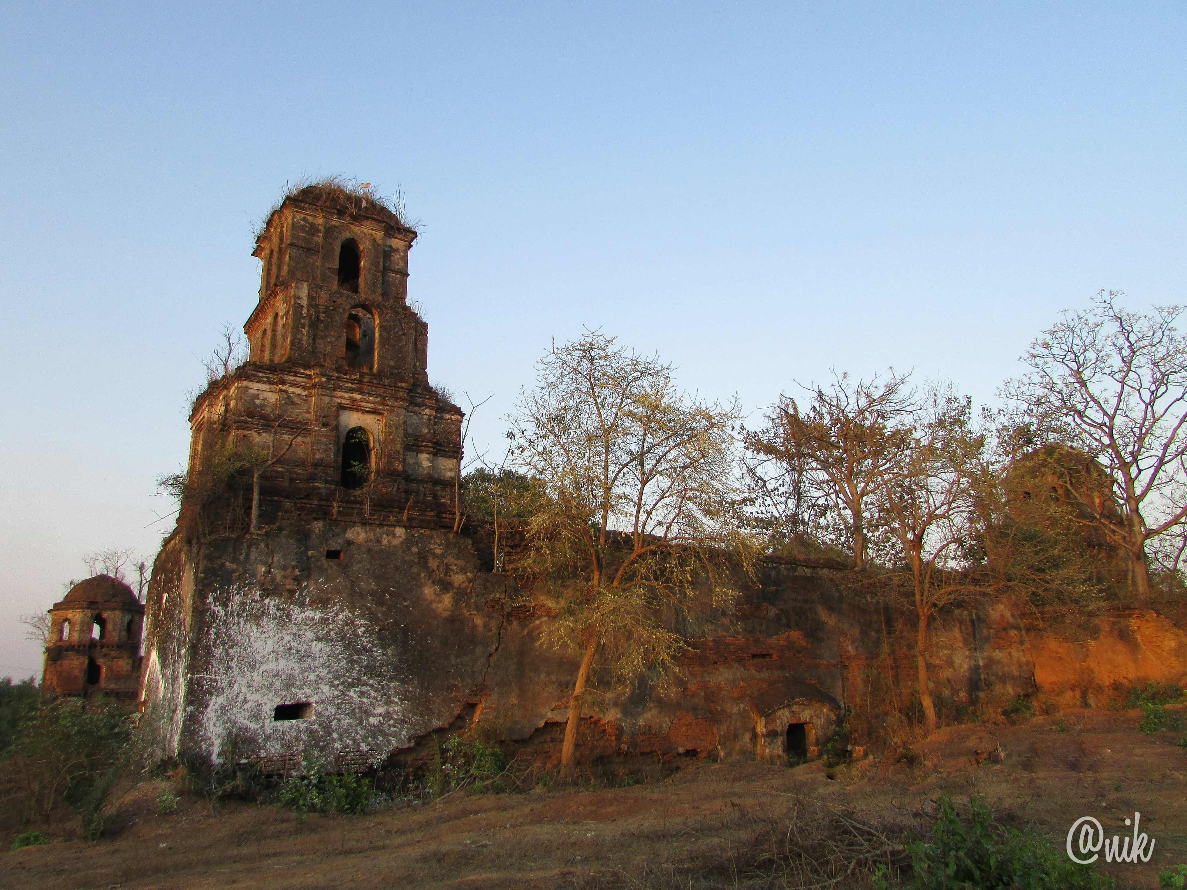 ভগ্নপ্রায় বিষ্ণুপুর হাওয়া মহল